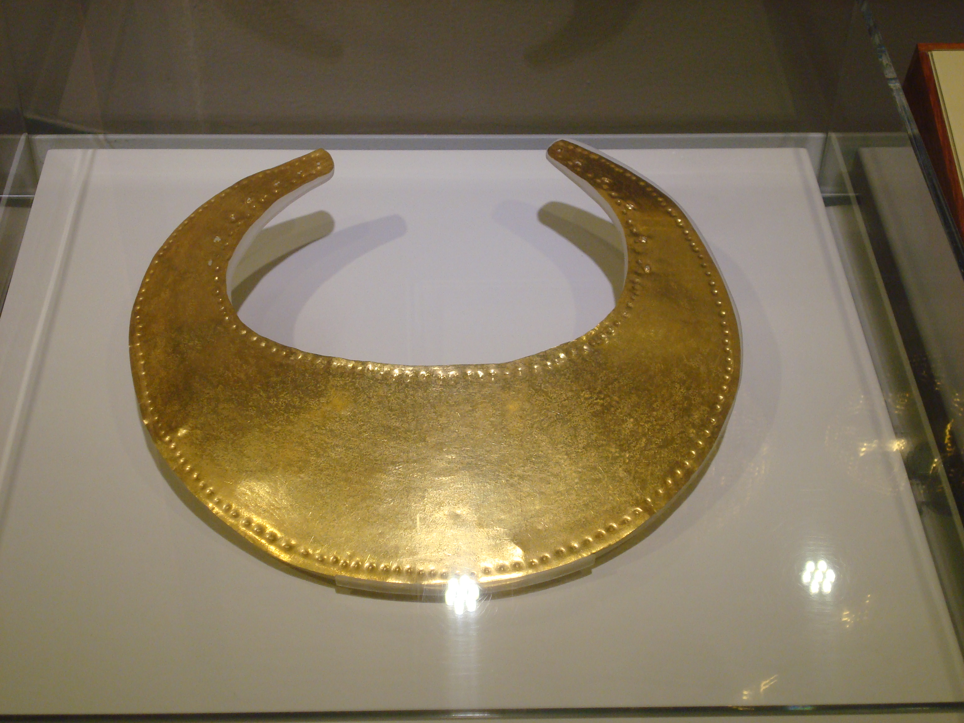 Golden horsesshoe-shaped pectoral decorated with points. Shamans and warriors wore these hanging over their chest as part of their ritual dress. Southern Pacific of Costa Ria. 700-1500 AD. Museum of Pre-Columbian Gold. San Jose. Costa Rica.